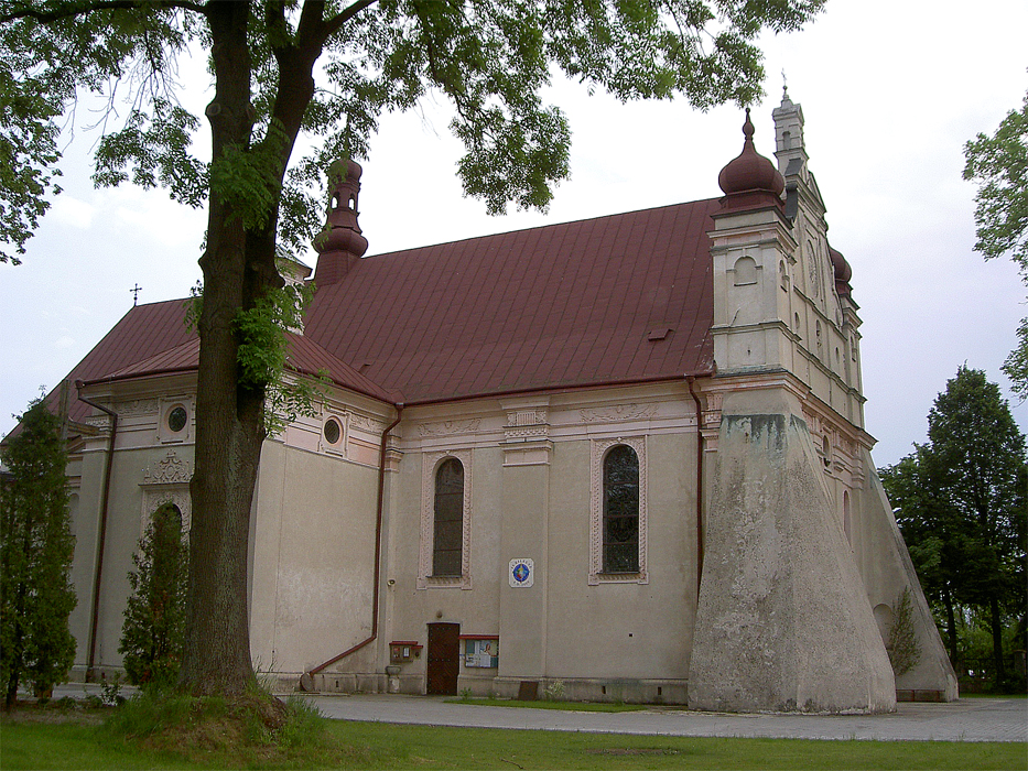 Saint Dominic church in Turobin, Poland